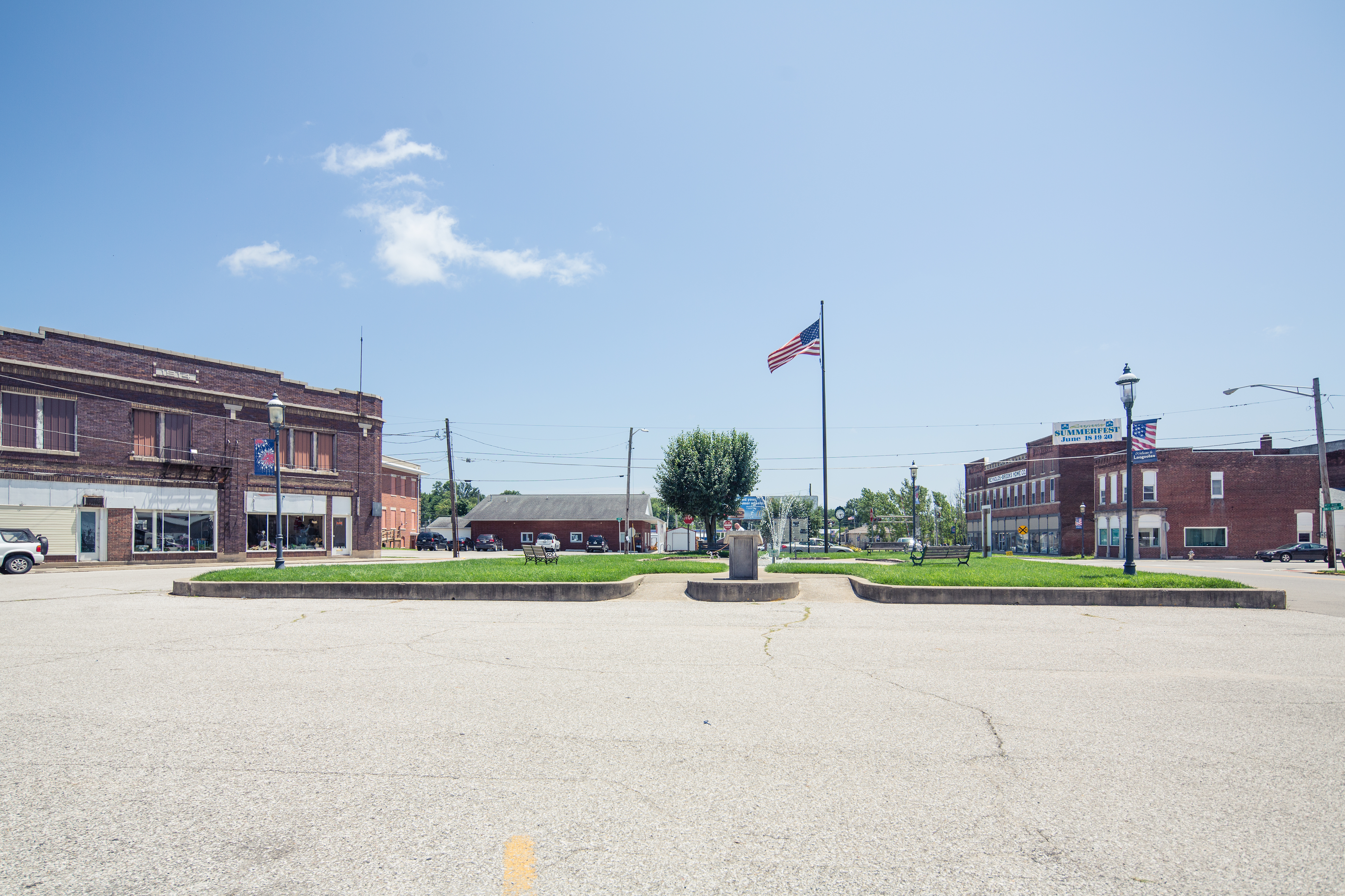 Photo from Small Town Indiana photo survey.